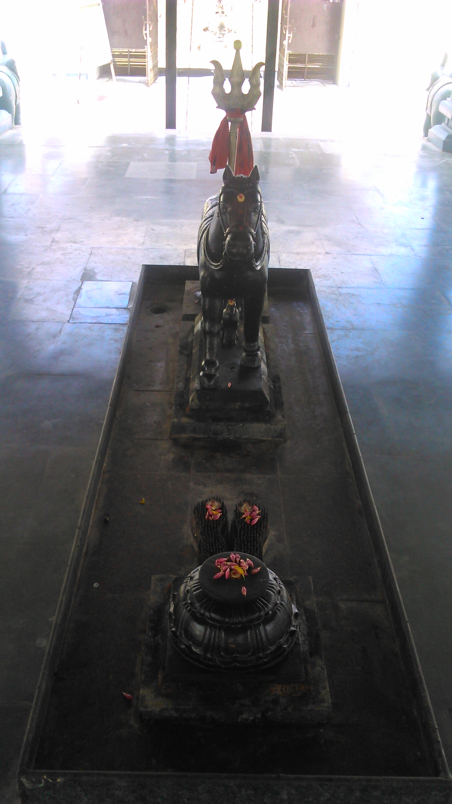 ஊமைக்கருமியண்ணன் குதிரை வாகனம்